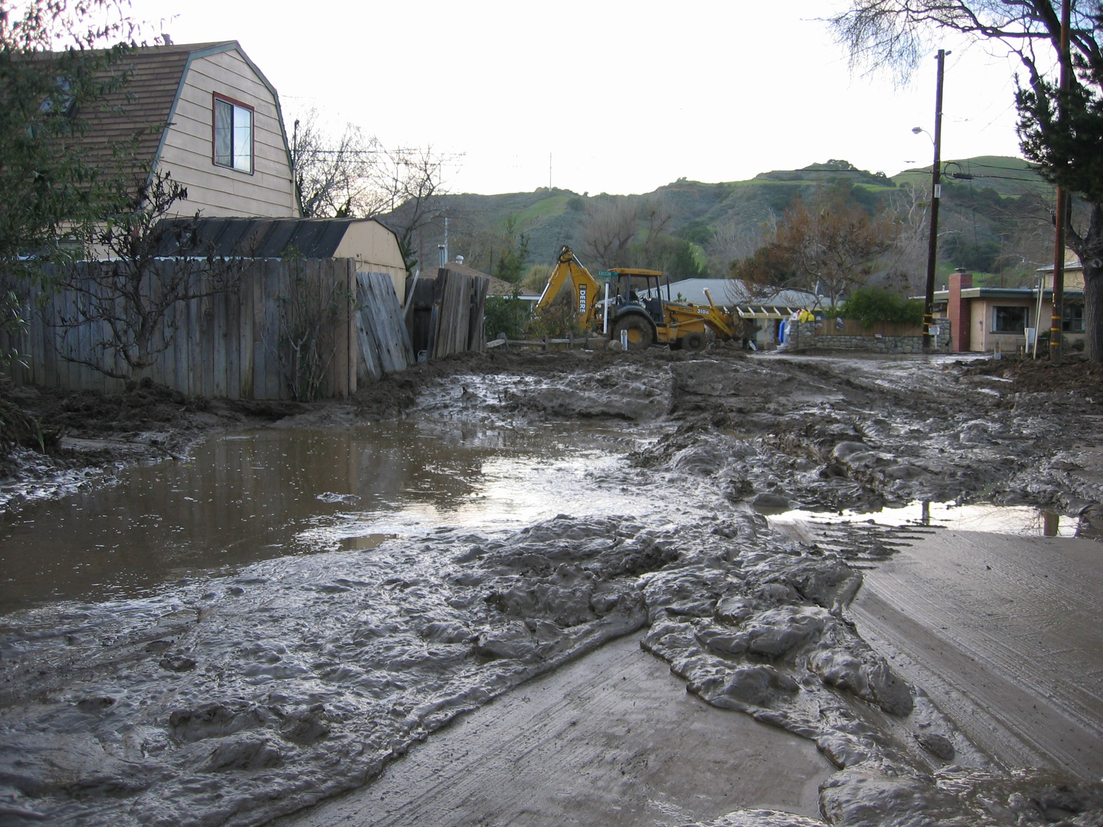 Casitas Springs CA, January 15, 2005 -- Mud and water remain in homes where winter storms caused flooding that damaged private property and roads. Photo by John Shea / FEMA News Photo